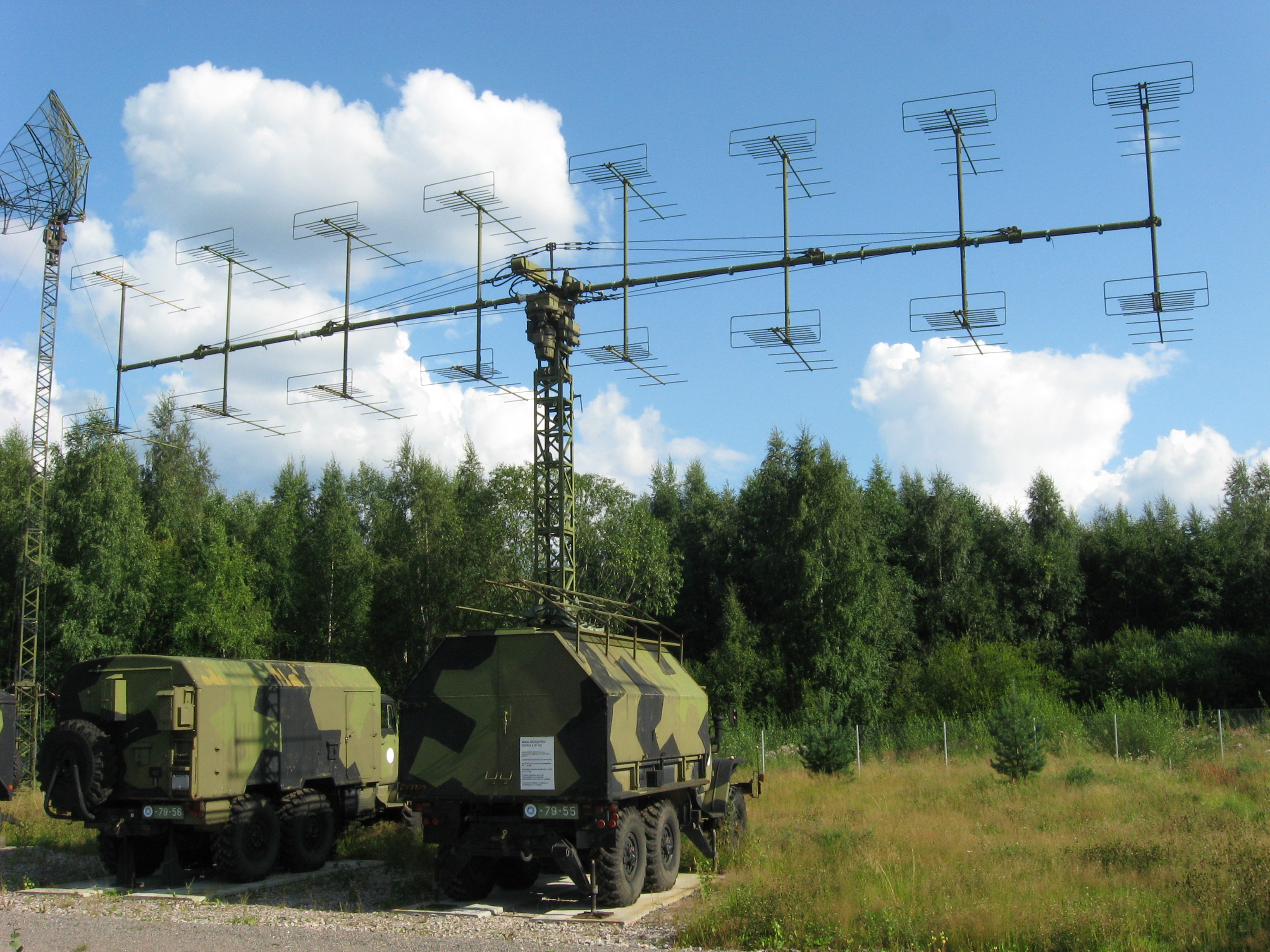 P-18 or 1LR13I or "Spoon Rest D" early warning radar main dish and control trucks at Ilmatorjuntamuseo, Tuusula, Finland.